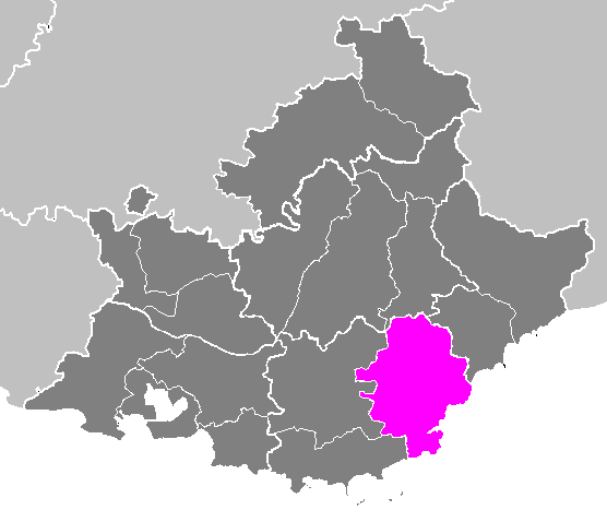 Maps of arrondissements and cantons of France: Arrondissement de Draguignan.PNG